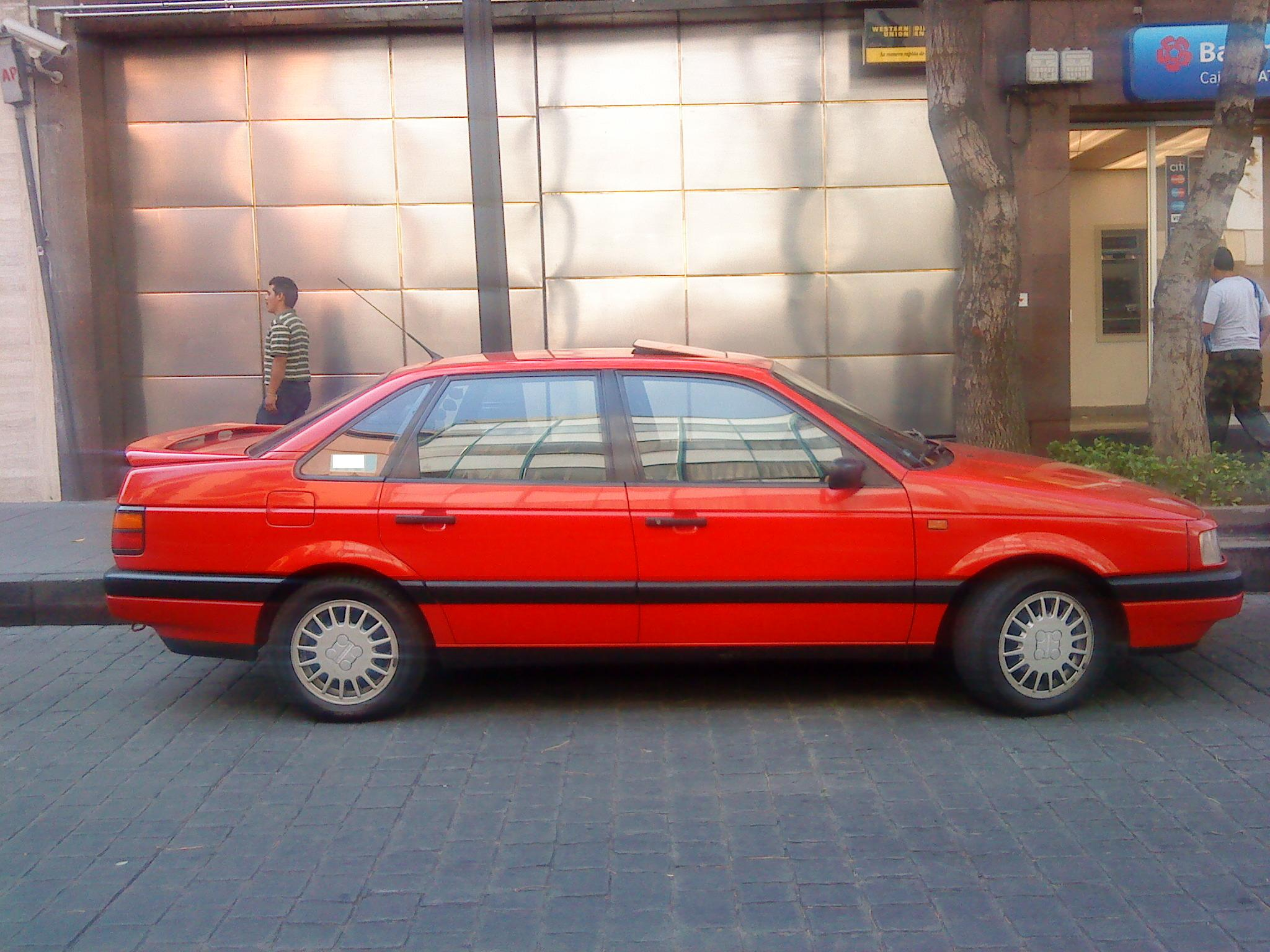 A 1991 Volkswagen Passat GL 16V in Mexico City